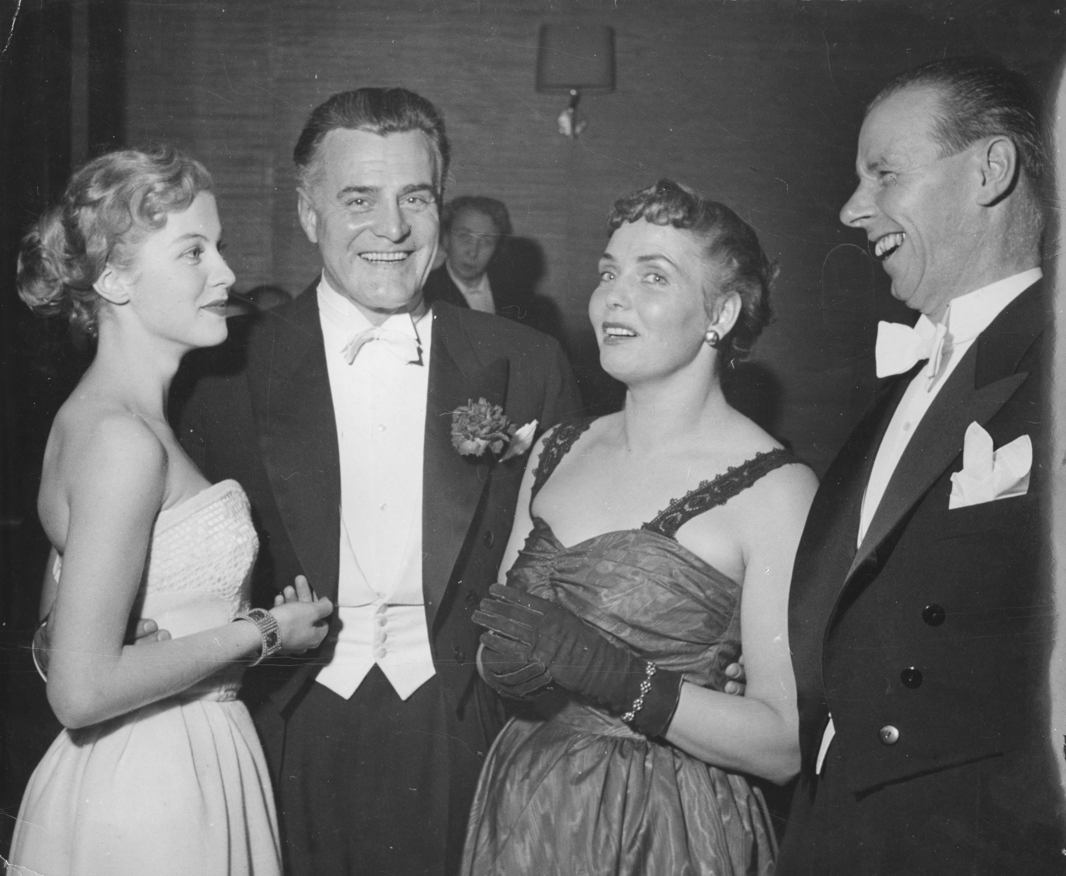 Jussi Awards 1952. From left Armi Kuusela, Tauno Palo, Mirjami Kuosmanen and Veikko Itkonen(?).